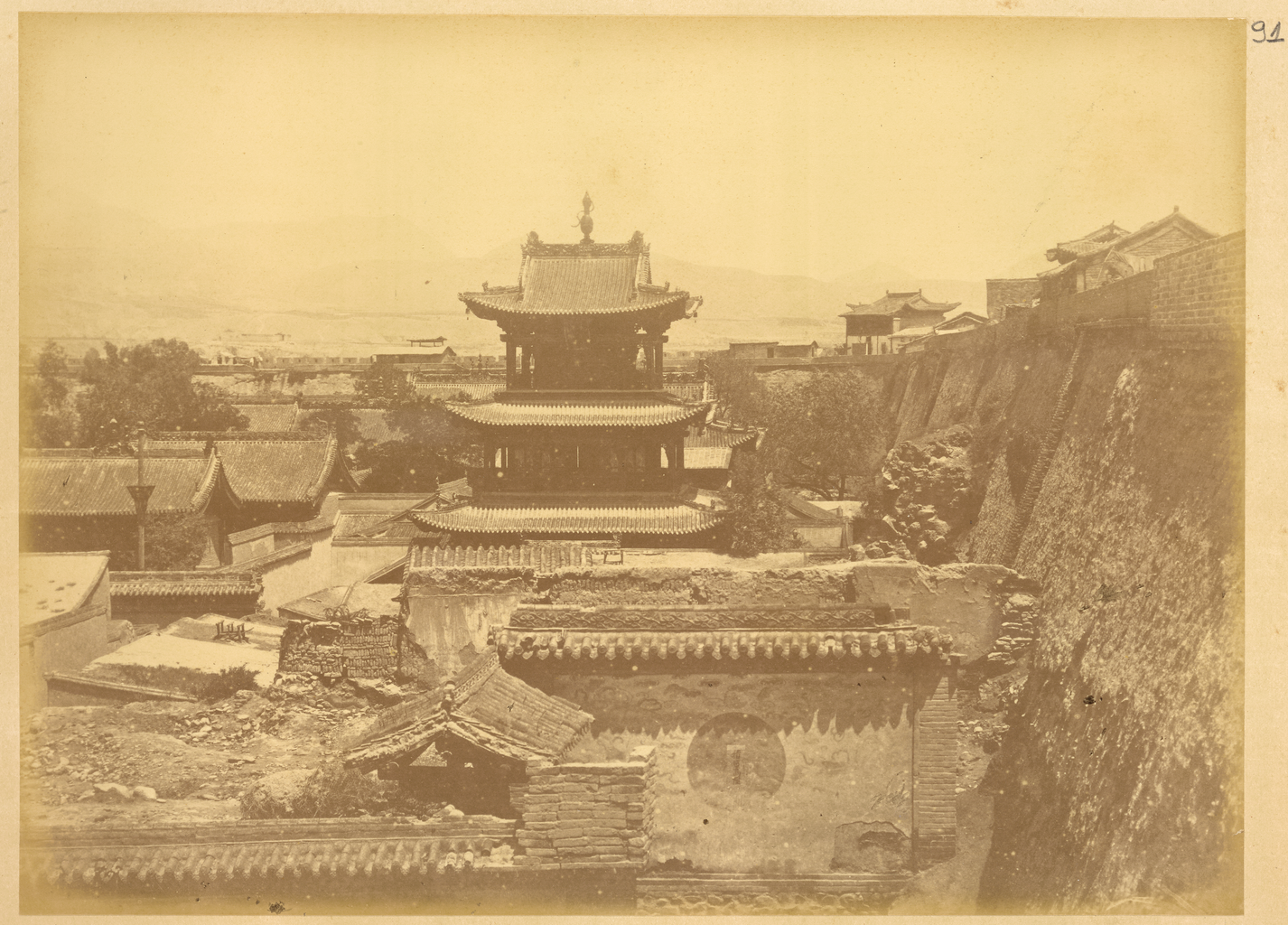 In 1874-75, the Russian government sent a research and trading mission to China to seek out new overland routes to the Chinese market, report on prospects for increased commerce and locations for consulates and factories, and gather information about the Dungan Revolt then raging in parts of western China. Led by Lieutenant Colonel Iulian A. Sosnovskii of the army General Staff, the nine-man mission included a topographer, Captain Matusovskii; a scientific officer, Dr. Pavel Iakovlevich Piasetskii; Chinese and Russian interpreters; three non-commissioned Cossack soldiers; and the mission photographer, Adolf Erazmovich Boiarskii. The mission proceeded from Saint Petersburg to Shanghai via Ulan Bator (Mongolia), Beijing, and Tianjin, and then followed a route along the Yangtze River, along the Great Silk Road through the Hami oasis, to Lake Zaysan, back to Russia. Boiarskii took some 200 photographs, which constitute a unique resource for the study of China in this period. Most of the photographs are included in this album, which later became part of the Thereza Christina Maria Collection assembled by Emperor Pedro II of Brazil and given by him to the National Library of Brazil. Buildings; Cities and towns; Memory of the World; Mosques